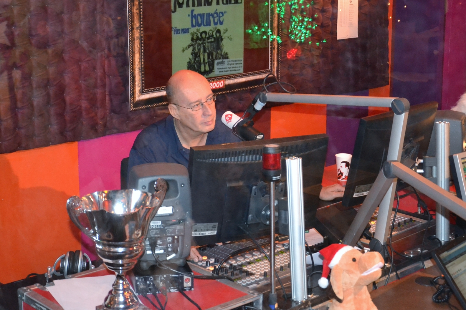 Disc jockey Daniël Dekker, on Dutch radio, presenting Top 2000 from 2011.